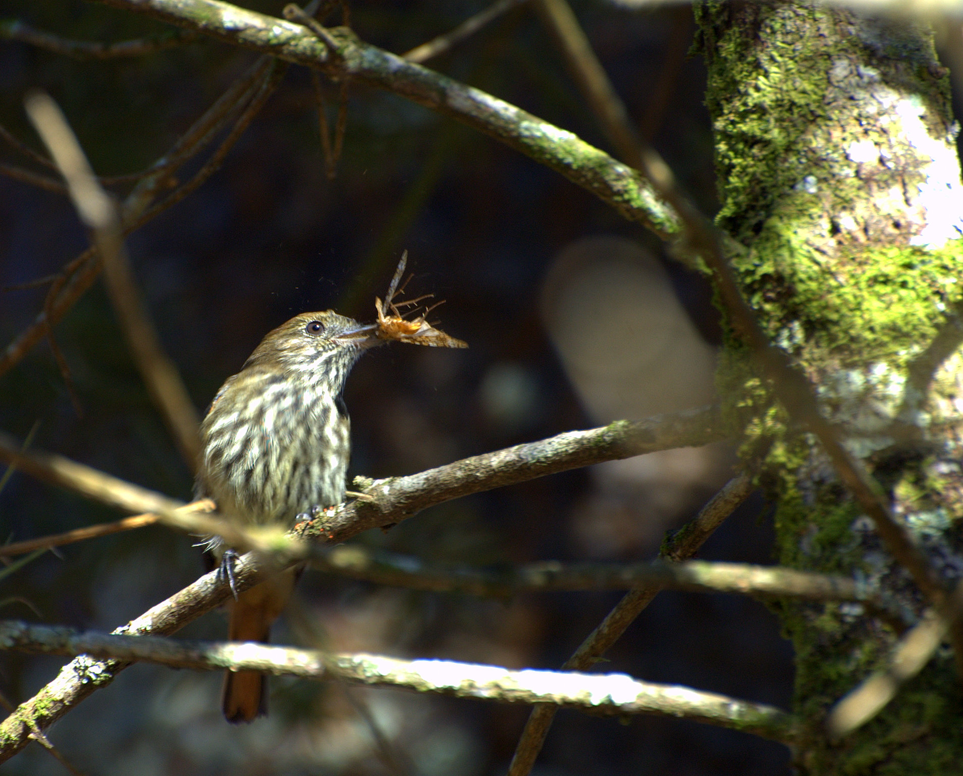 A Blue-billed Black-tyrant (Knipolegus cyanirostris), female